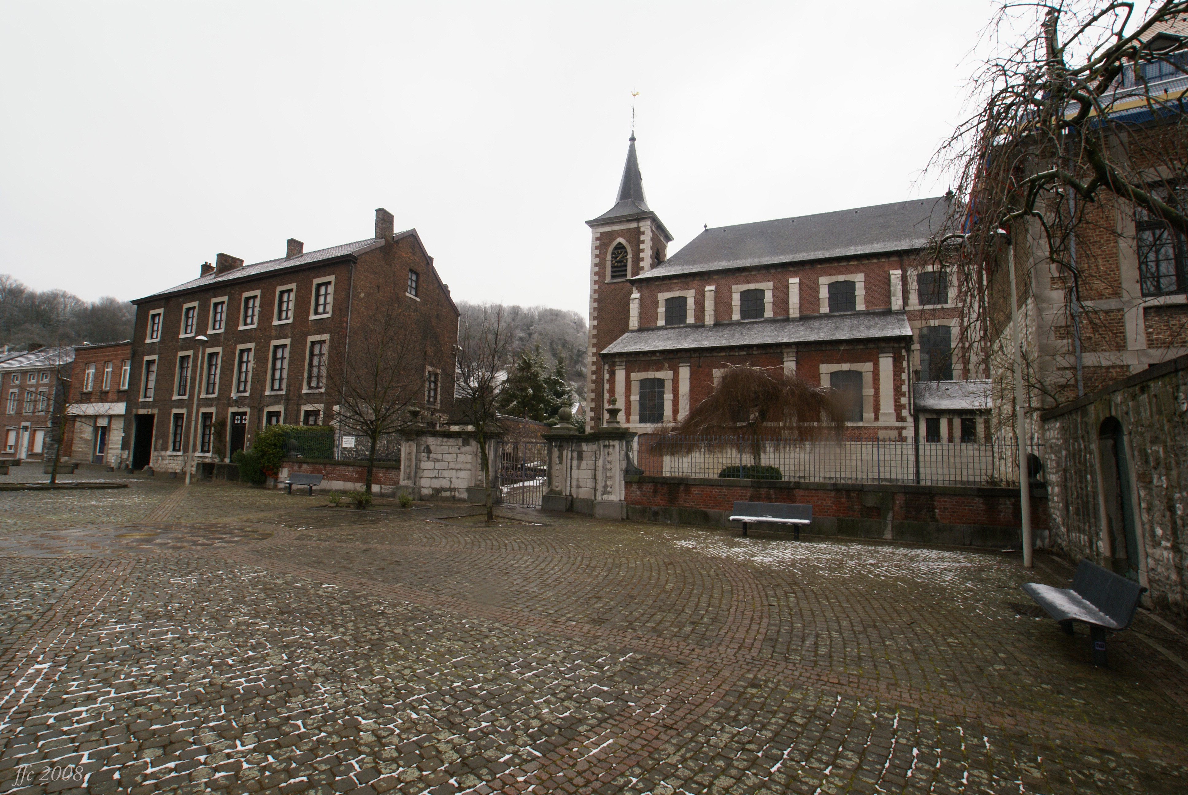 Flémalle (Chokier), Belgium: Pope Marcellinus Church